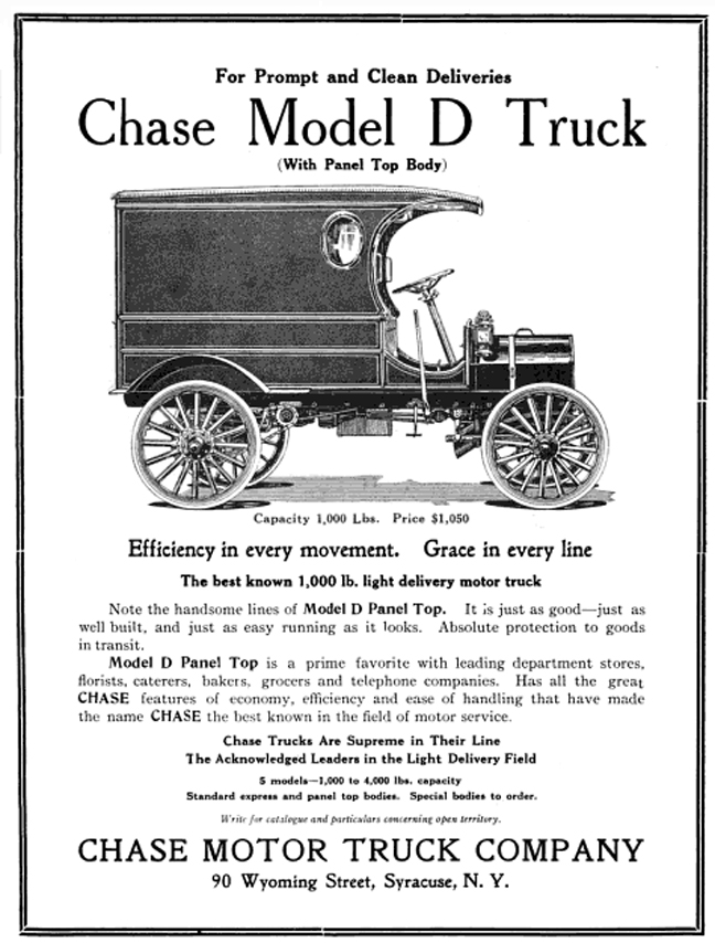 Chase Motor Truck Company advertisement